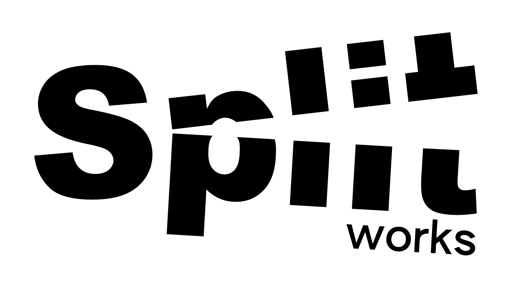 The logo of Split Works, China-based independent music and festival promoters.